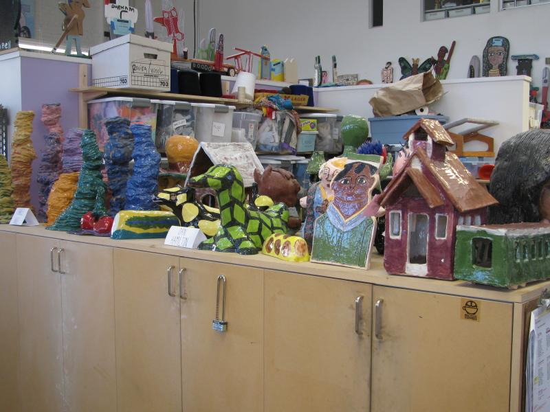 Creative Growth Art Center ceramics, Oakland, CA